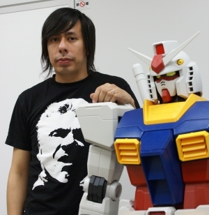 Patrick Macias at Bandai Headquarters, Tokyo, 2007